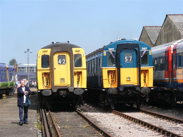 3417 and 1497 at Eastleigh 100